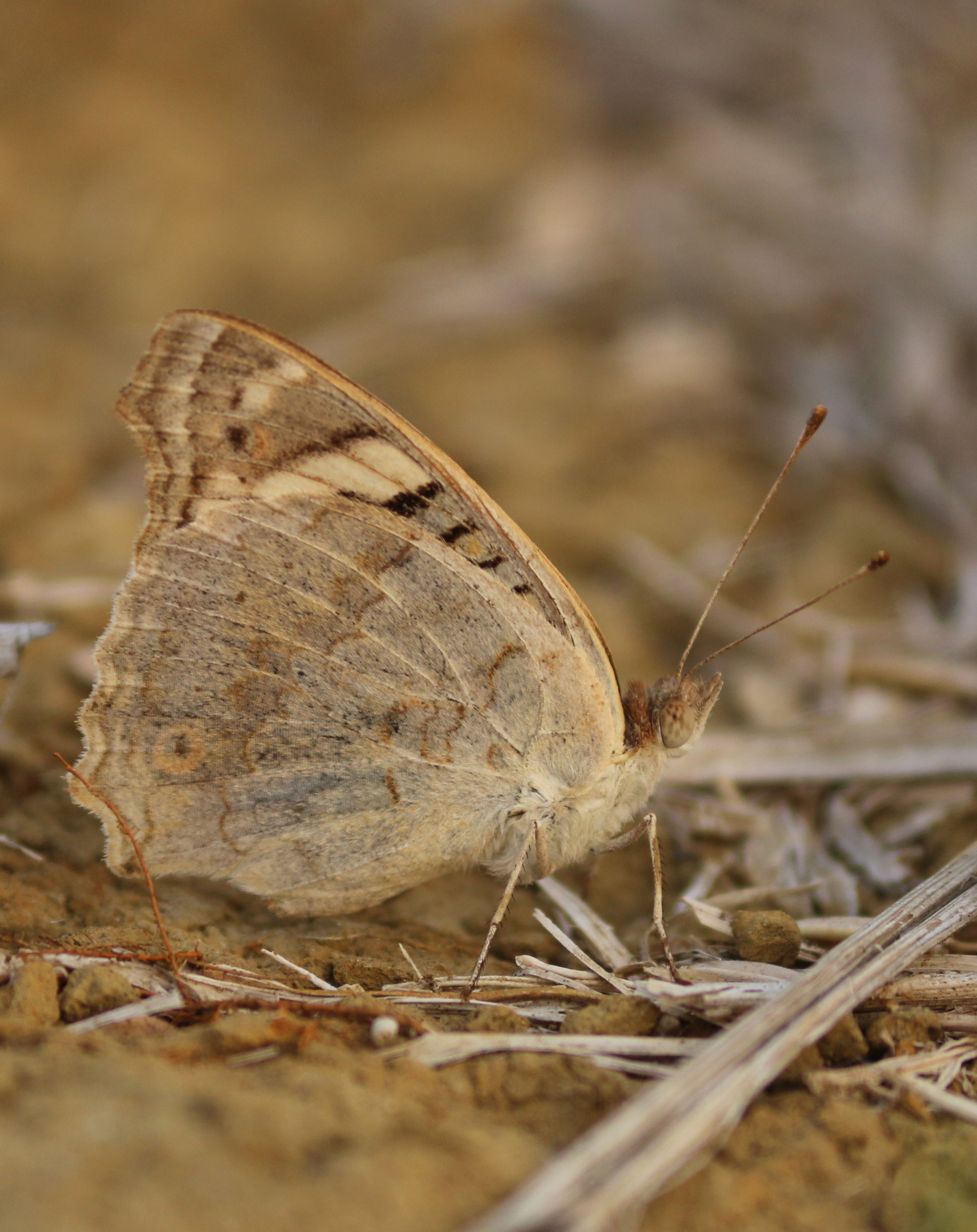 Blue pansy butterfly